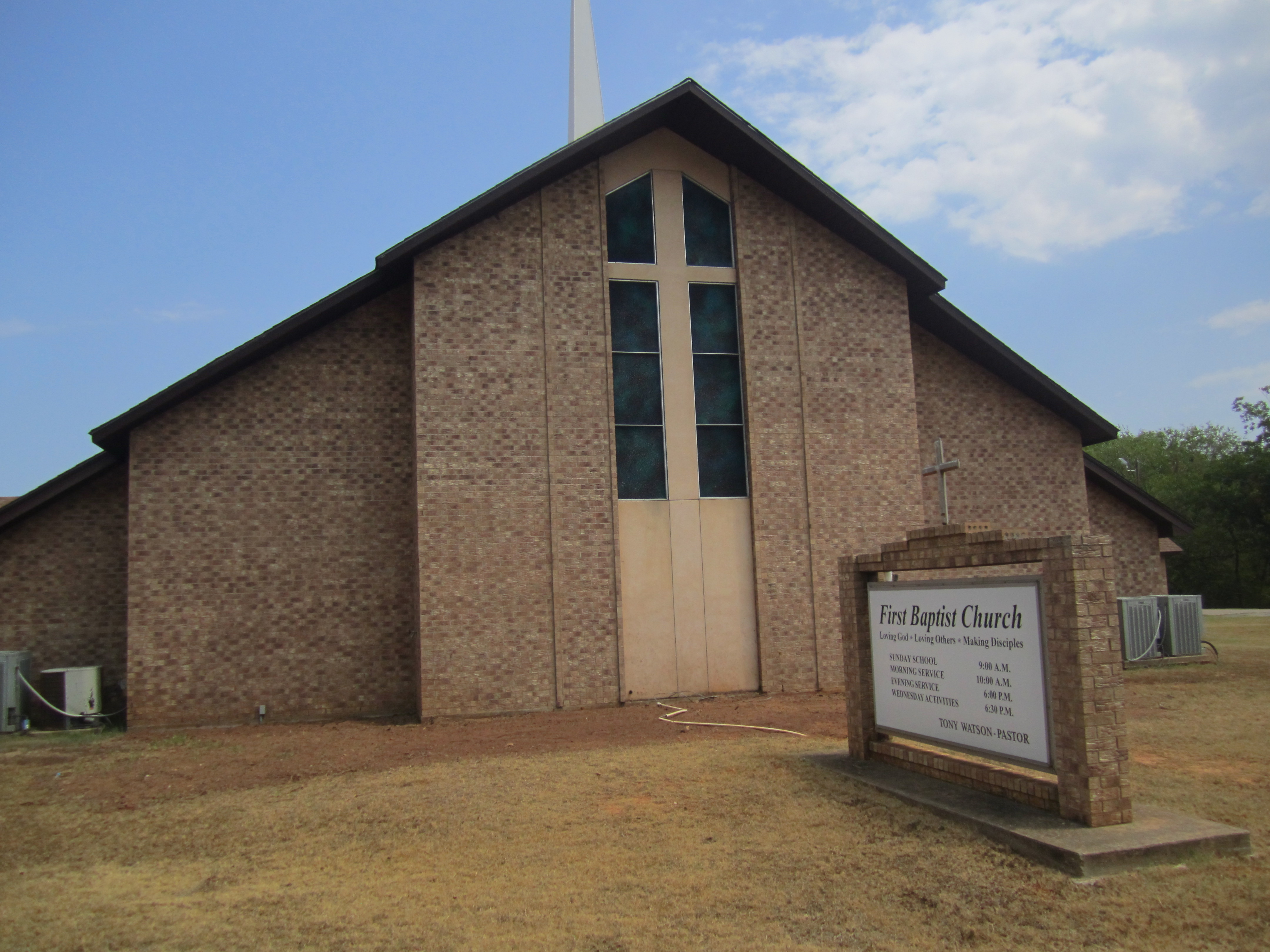 I took photo with Canon camera of Winona, TX, First Baptist Church.